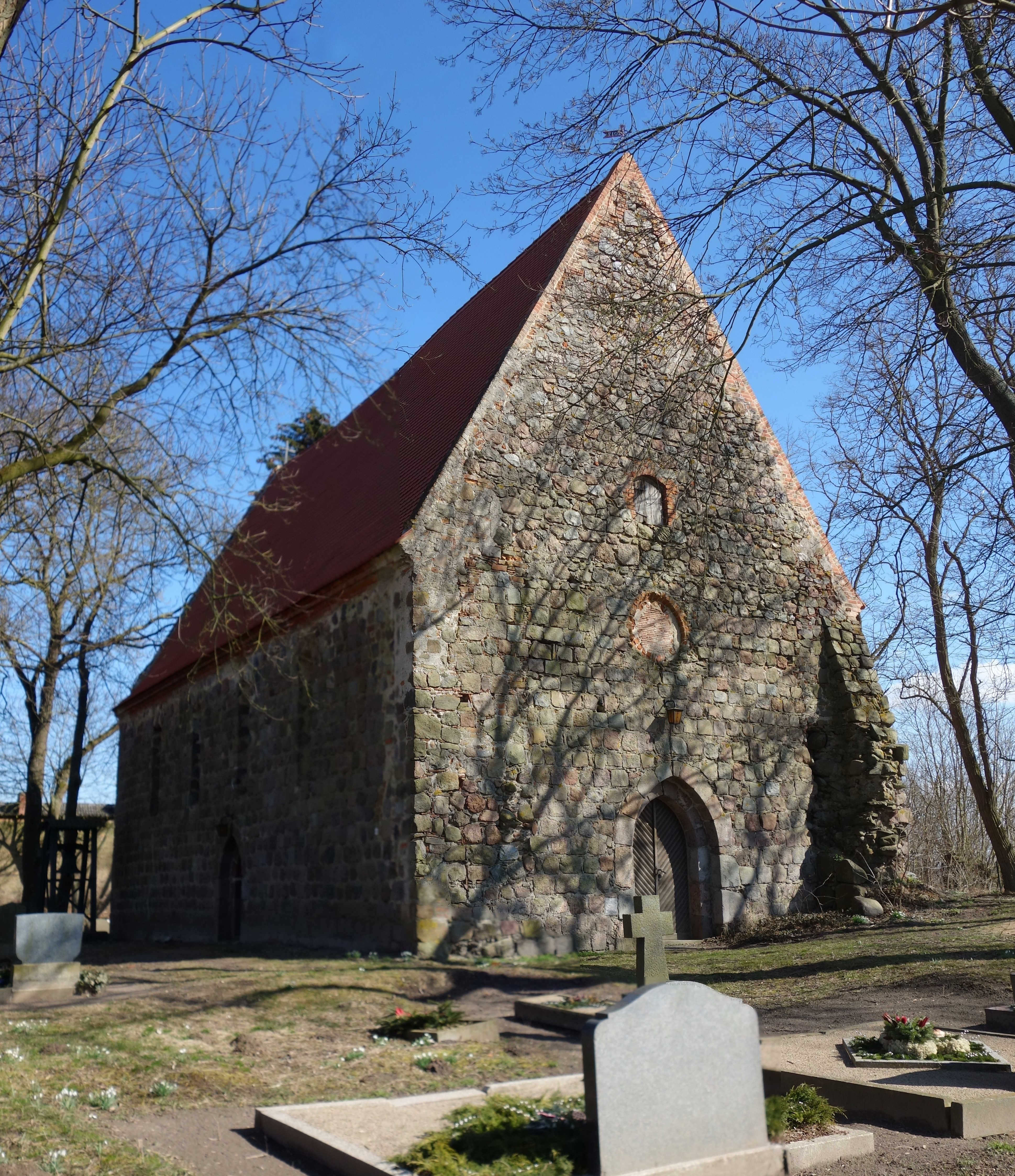 North-western view of the church in Ziemkendorf , Randowtal municipality , Uckermark district, Brandenburg state, Germany